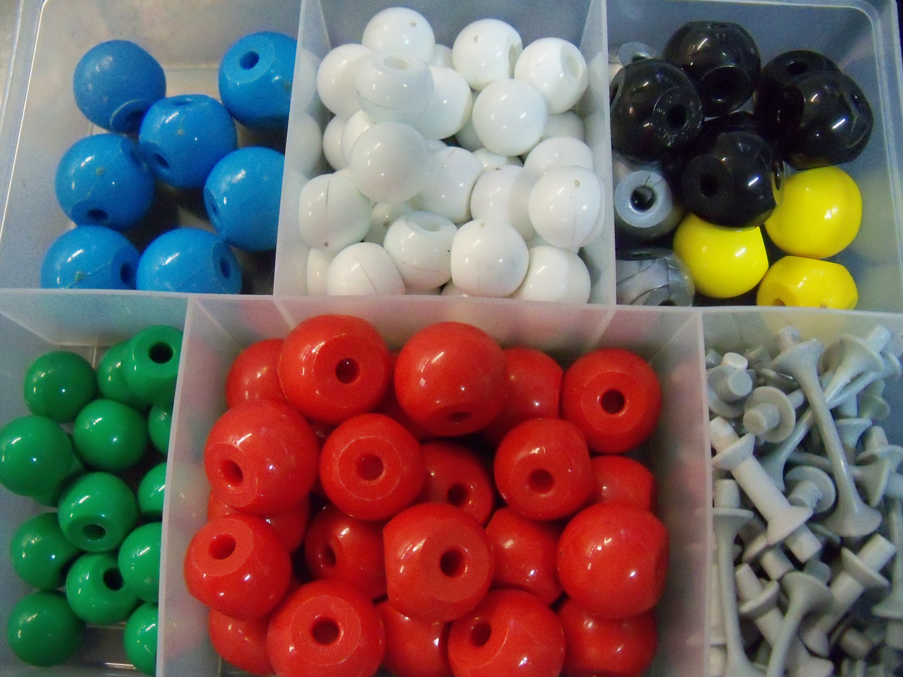 A basic kit for constructing Ball-and-stick models, in accordance to CPK coloring.